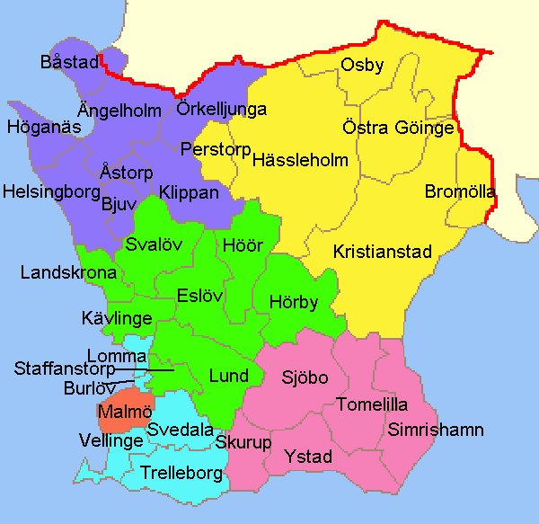 A map of division of the county in elections